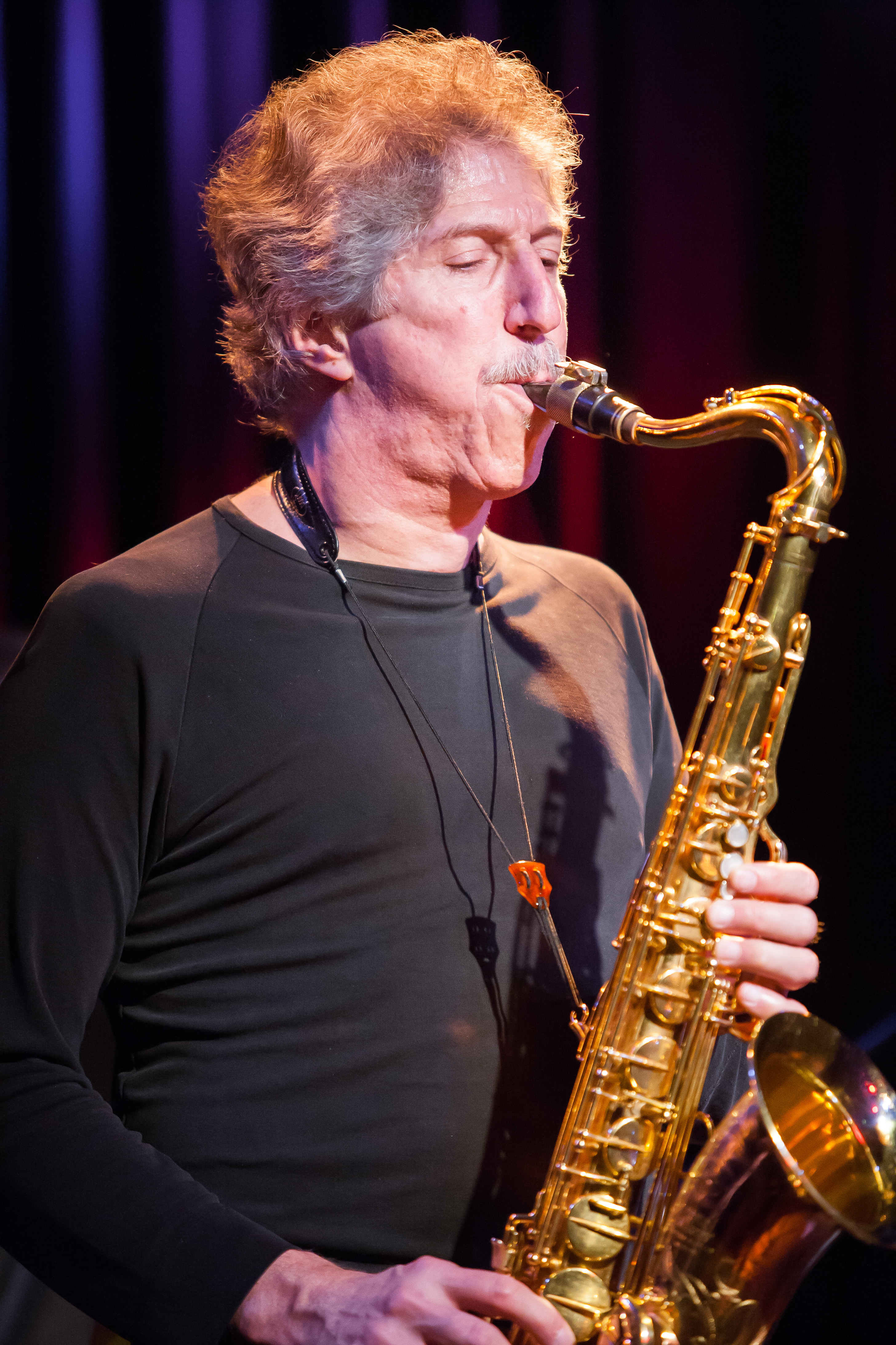 Bob Mintzer and Christian Stock Trio, Harmonie, Bonn, Germany